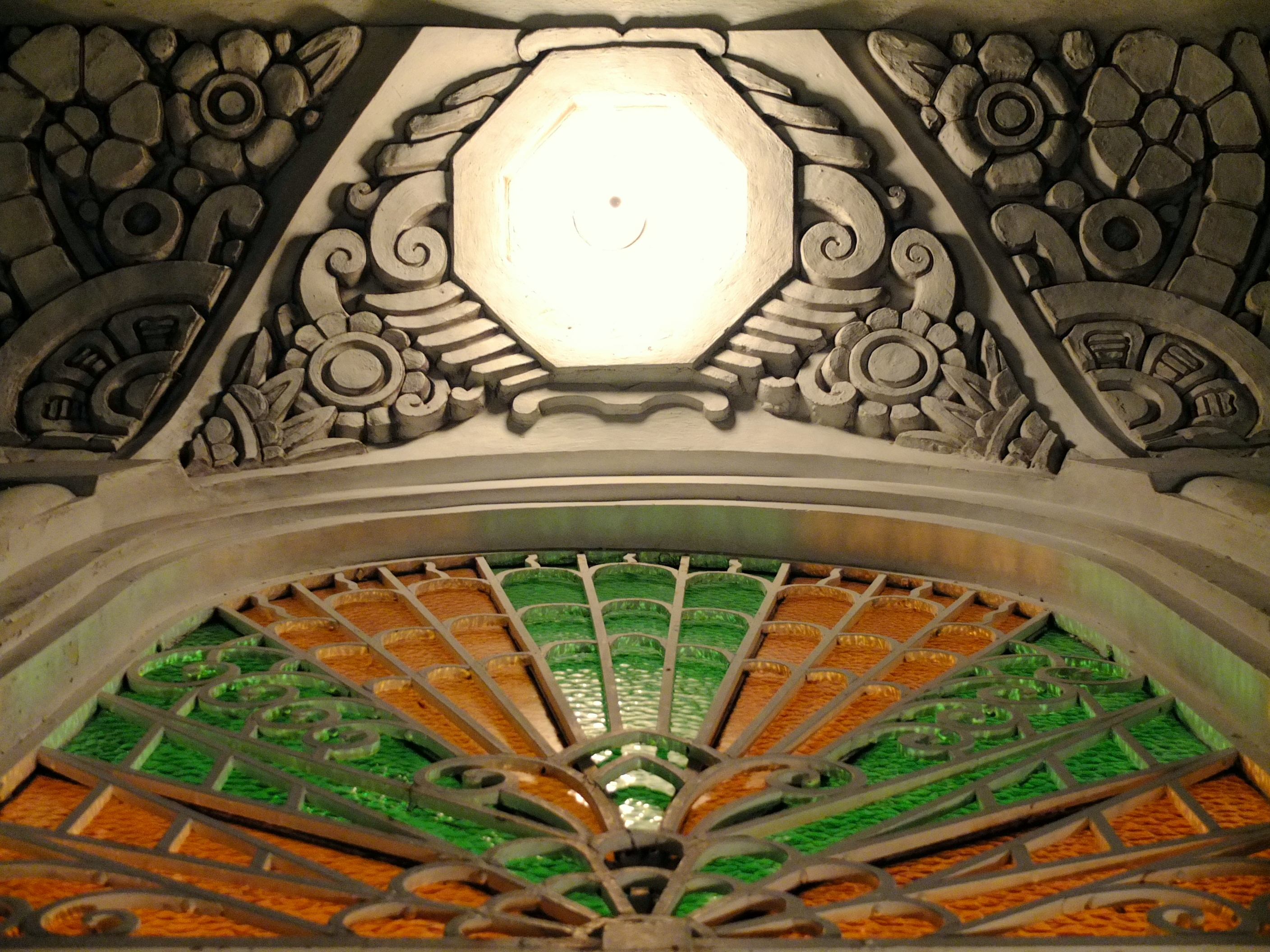 A close up view of art deco detailing at the mirador of Gala-Rodriguez house